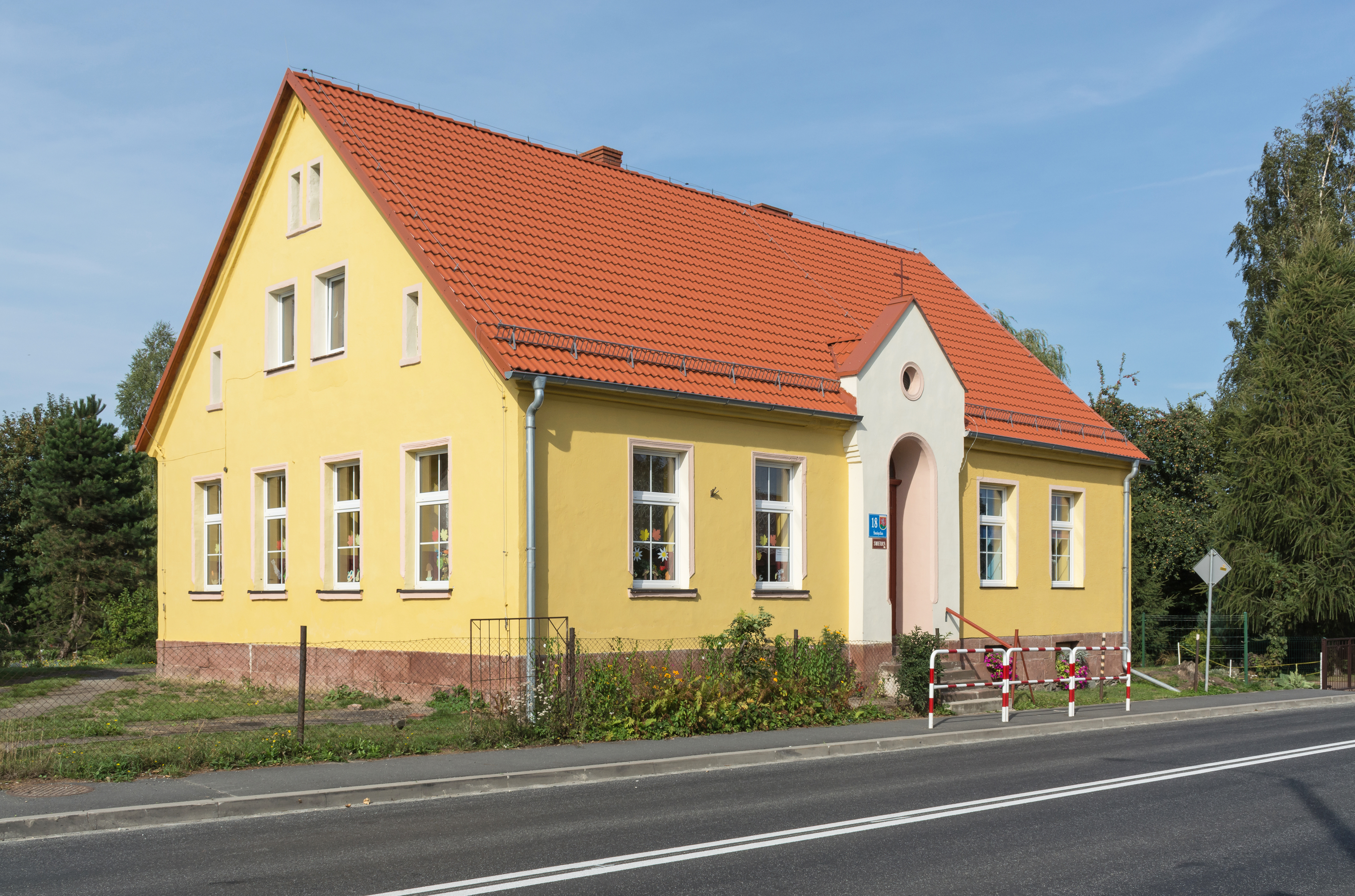 House No. 18 in Święcko